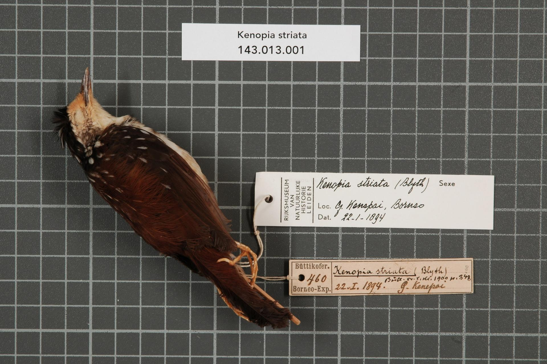 Kenopia striata (Blyth, 1842)